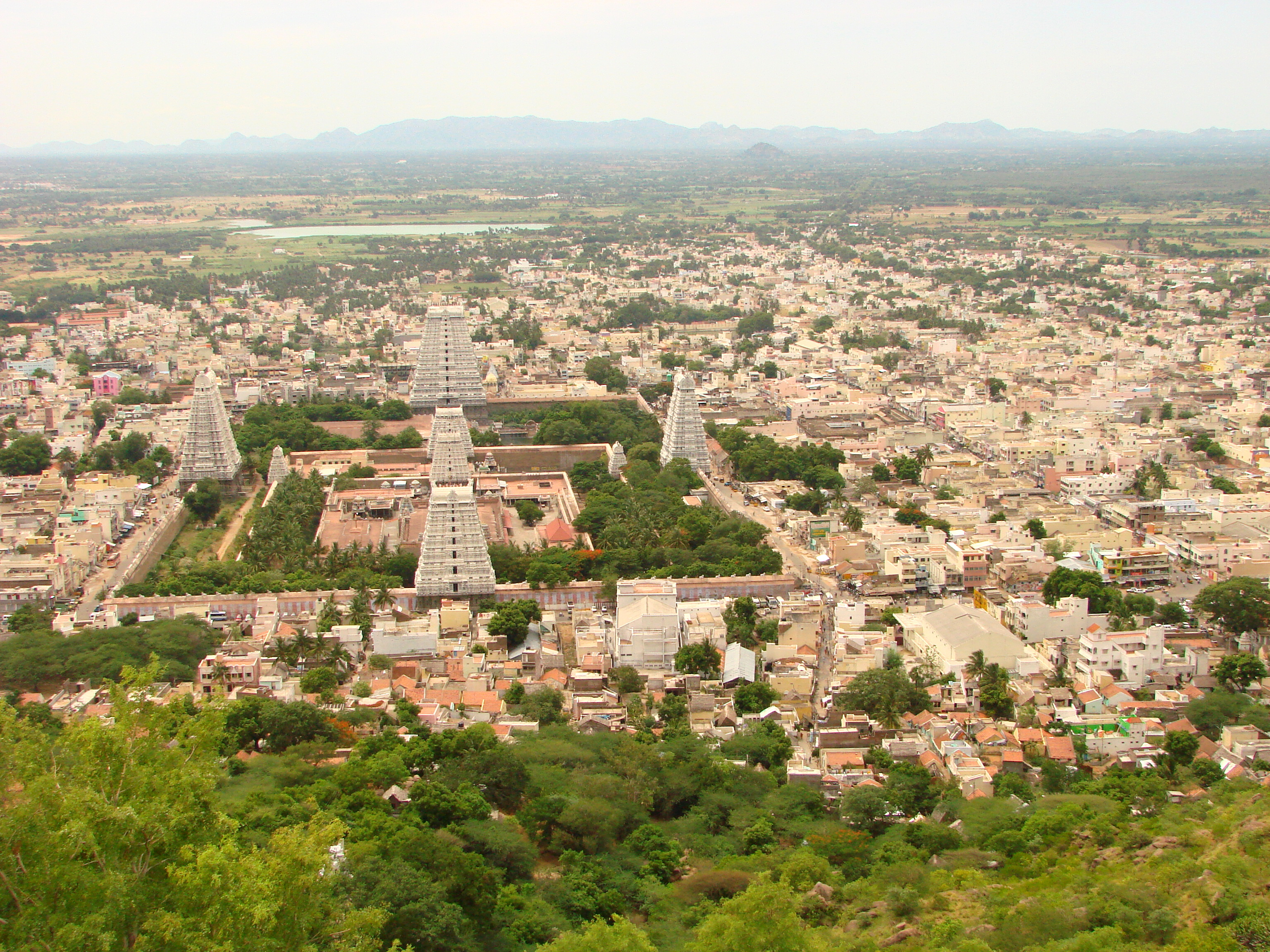 View over Arunchaleshvara Temple from the Red Mountain, Tiruvannamalai, India. July 2008.